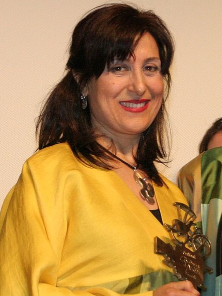 Fatemeh Motamed Arya (Cyclod'or d'honneur) et Martine Thérouanne (présidente du FICA)